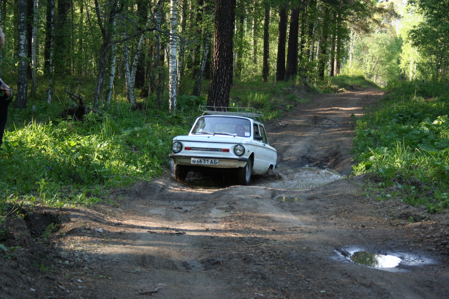 Zaporozhets car on dirt road